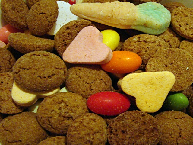 "Strooigoed" dutch sinterklaas candy cook and sweets